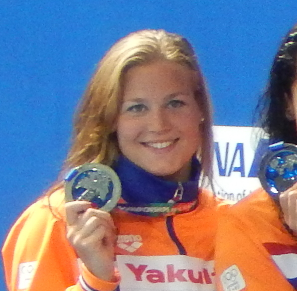 Victory Ceremony of women's 4×100 metres freestyle relay at the 2015 World Champs in Kazan